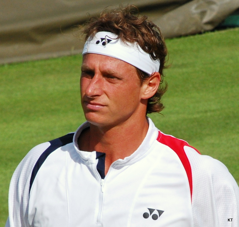 David Nalbandian during his first round match with Julian Reister. Nalbandian won 7-5, 6-2, 6-3. Day 2 of Wimbledon 2011.